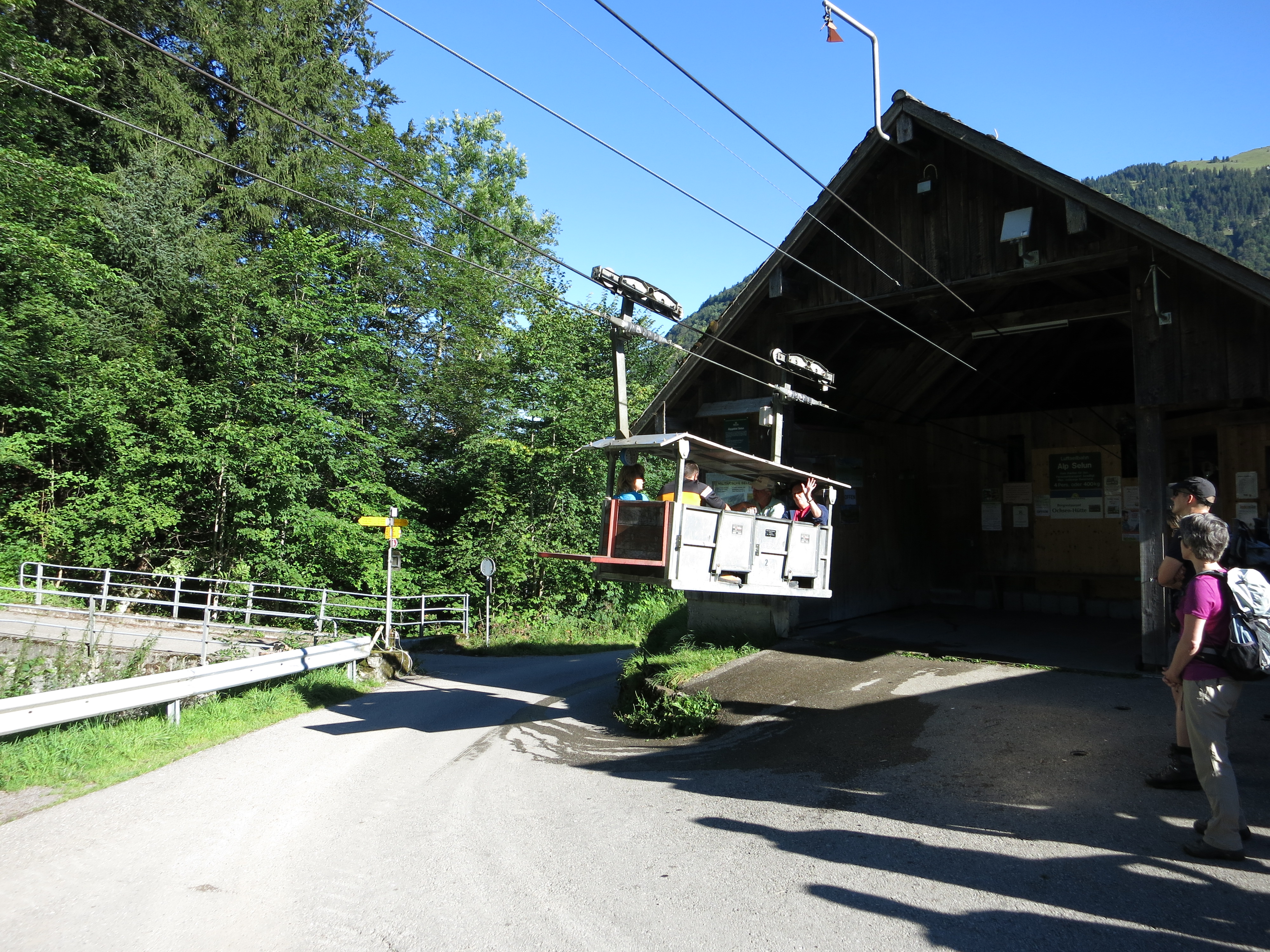 Cablecar Selunbahn in Switzerland